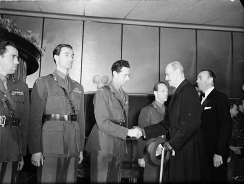 HM King Haakon VII of Norway at the premiere of the film Kampen om tungtvannet (Operation Swallow: The Battle for Heavy Water) at Klingenberg kino in Oslo. Soldiers in uniform, from the left: Knut Haukelid, Joachim Rønneberg, Jens Anton Poulsson shaking hands with the king, Kasper Idland. Photo by Leif Ørnelund in the collection of Oslo Museum via DigitaltMuseum.